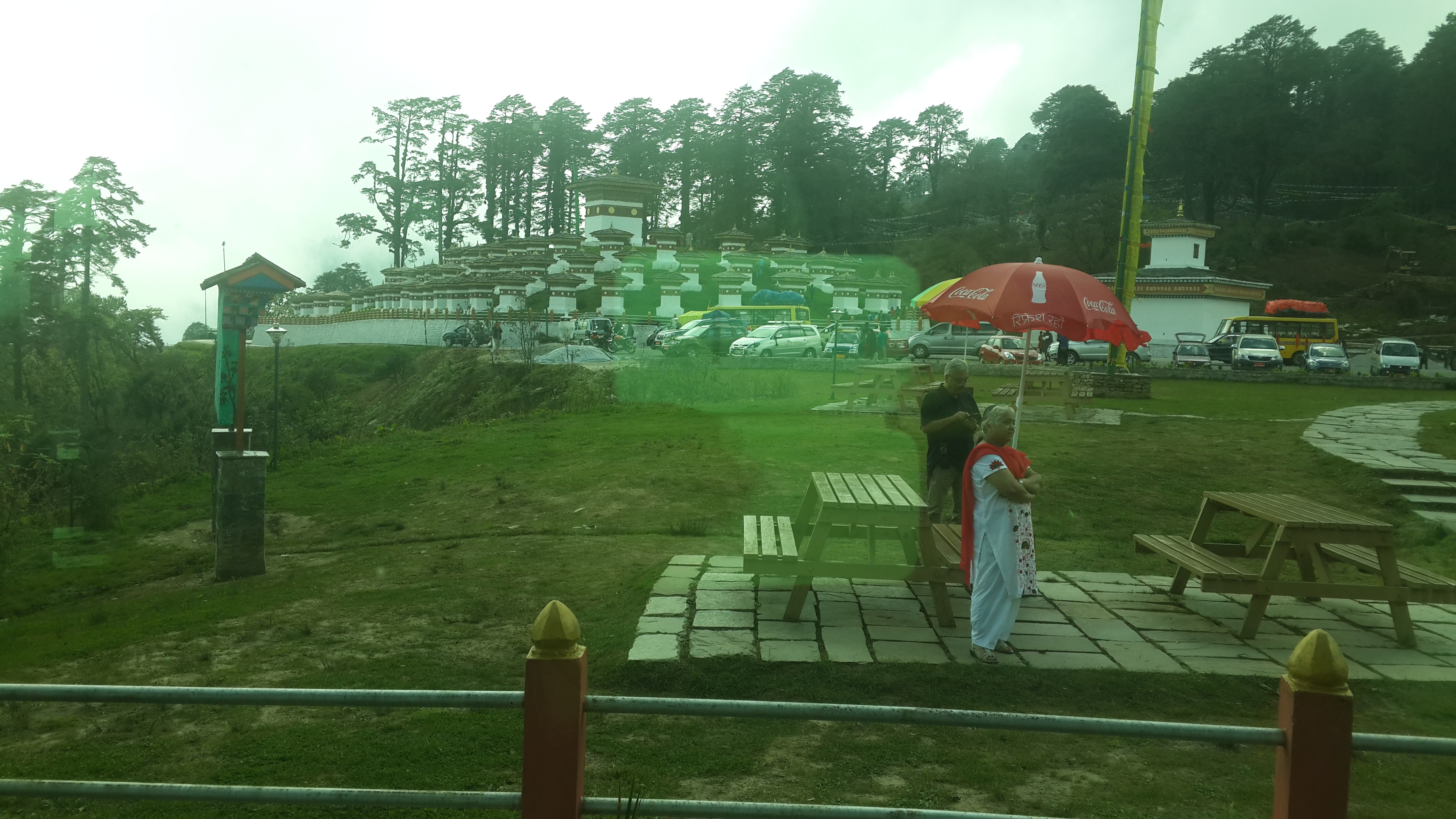 Full view of Dachula pass in Bhutan with the forest background